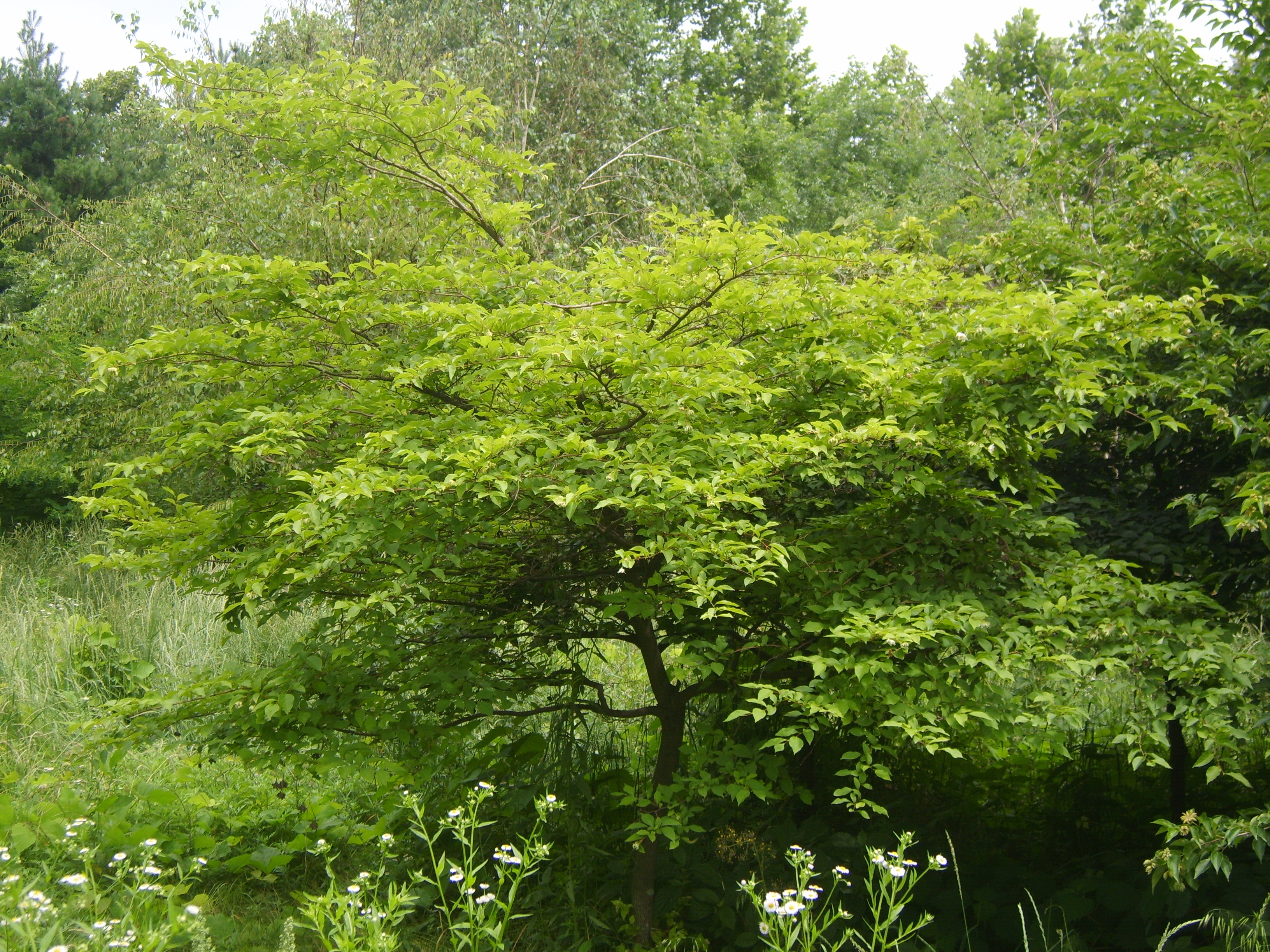 Styrax japonicus in Woninjae, Korea